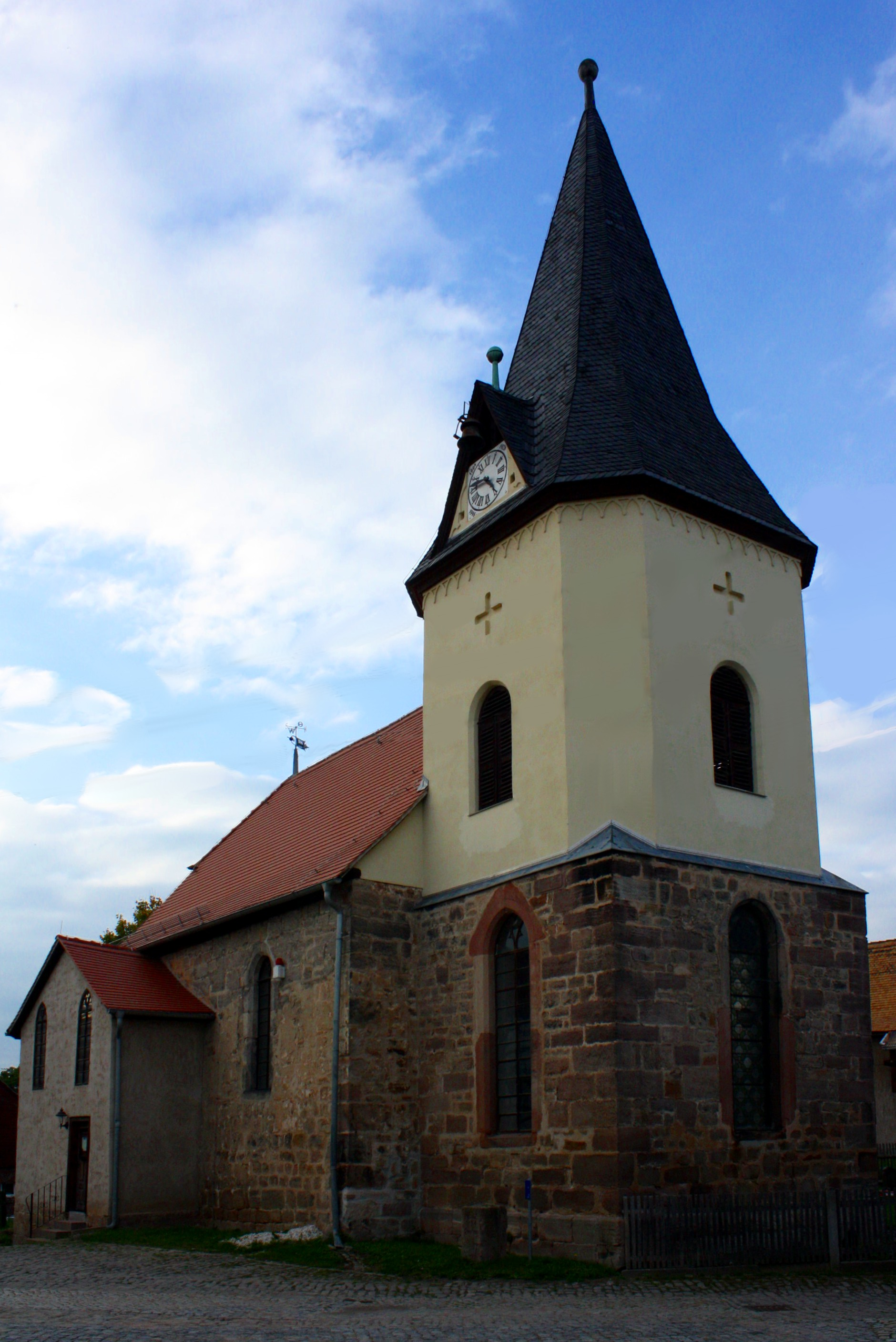 Village church in Hummelshain-Schmölln near Jena/Thuringia